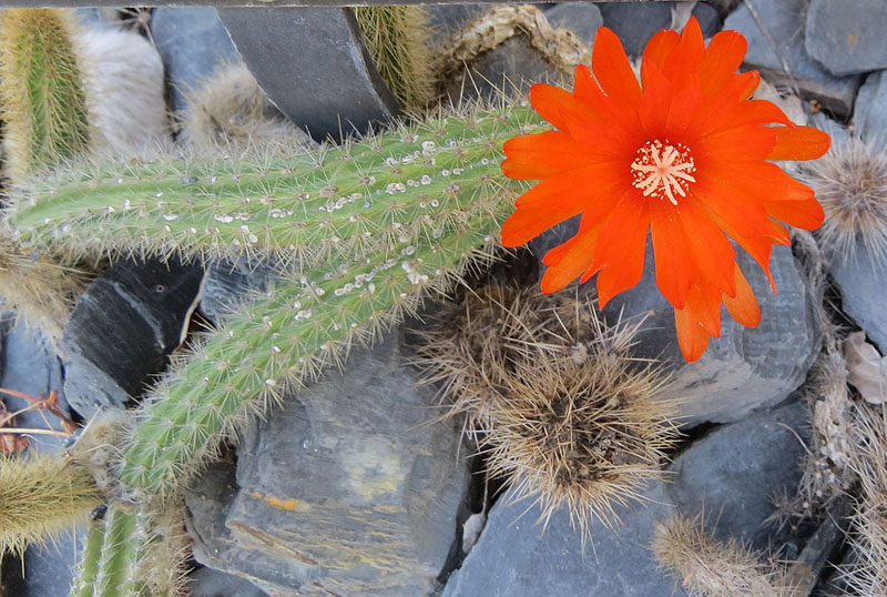 Endemic to Peru, mainly southwestern. Lotusland, Montecito, Calif.